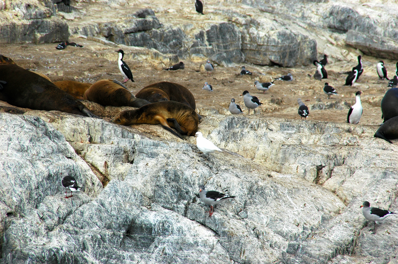 Snowy Sheathbill (Chionis alba) Dolphin Gulls (Larus scoresbii) Imperial Shags (Phalacrocorax atriceps) South American Sea Lions (Otaria flavescens) Photographed on an islet in the Beagle Channel.